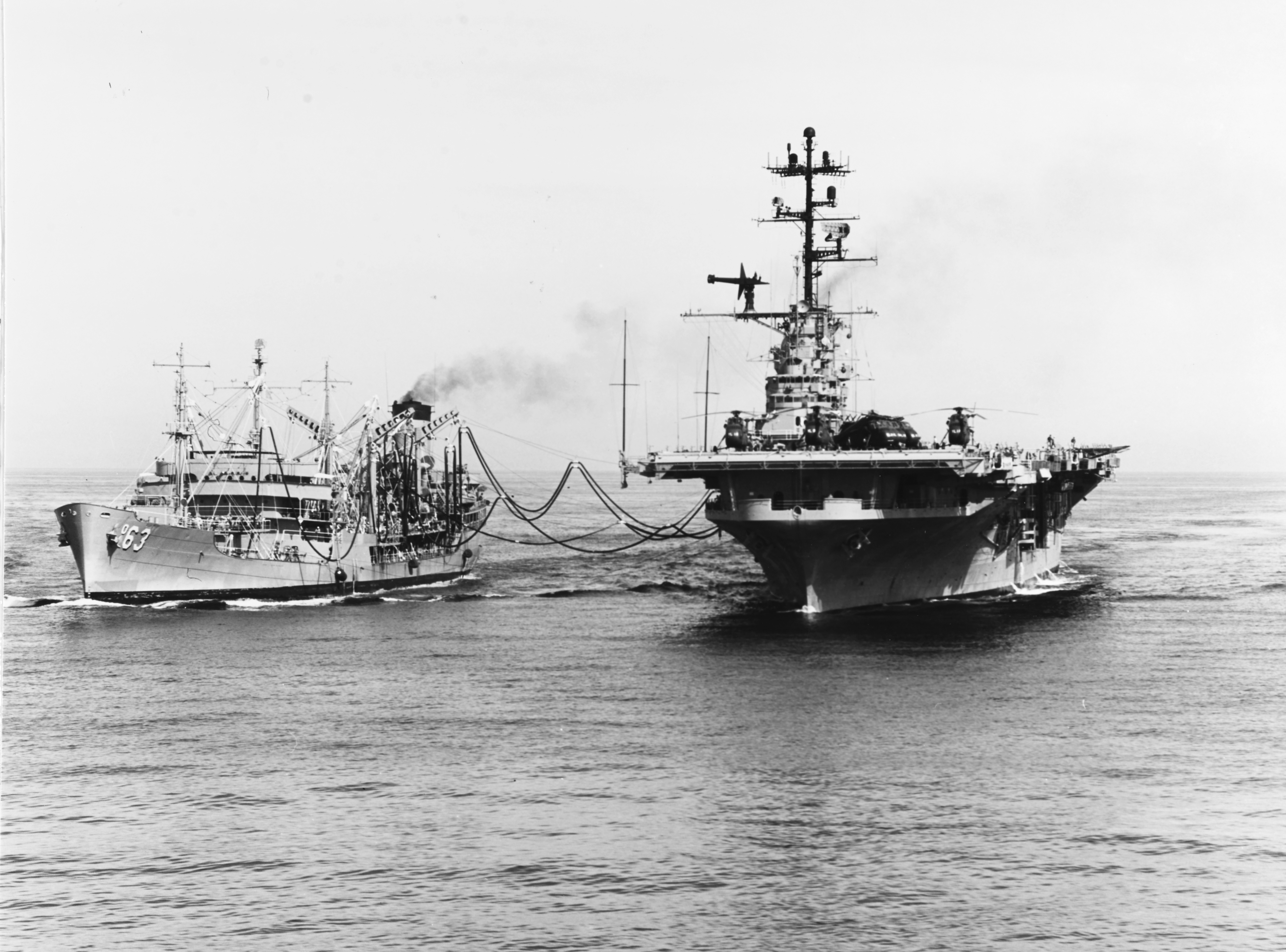 The U.S. Navy amphibious assault ship USS Princeton (LPH-5) refueling from the fleet oiler USS Chipola (AO-63) during operations in the Pacific Ocean, 25 June 1968.